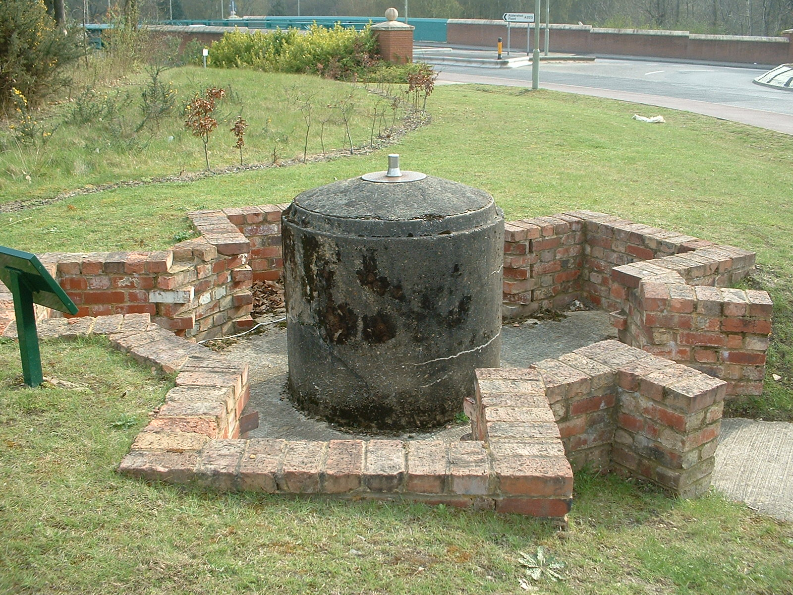 Spigot mortar emplacement, Elvetham Heath, reconstructed. At the entrance to Elvetham Heath housing development, previously overgrown with Rhododendron growth and woodland scrub. The developers have made the Spigot Mortar base into a recreation of how it previously looked - although the brick walls would probably have been a little higher. OS reference SU795550